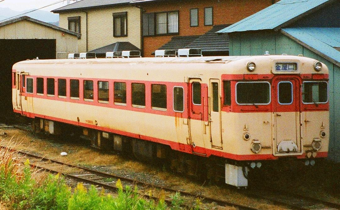 Arita-Railway type Kiha58-003 Diesel railcar(Japan). 有田鉄道線のキハ58形(003)気動車。金屋口駅構内にて、敷地外より撮影。